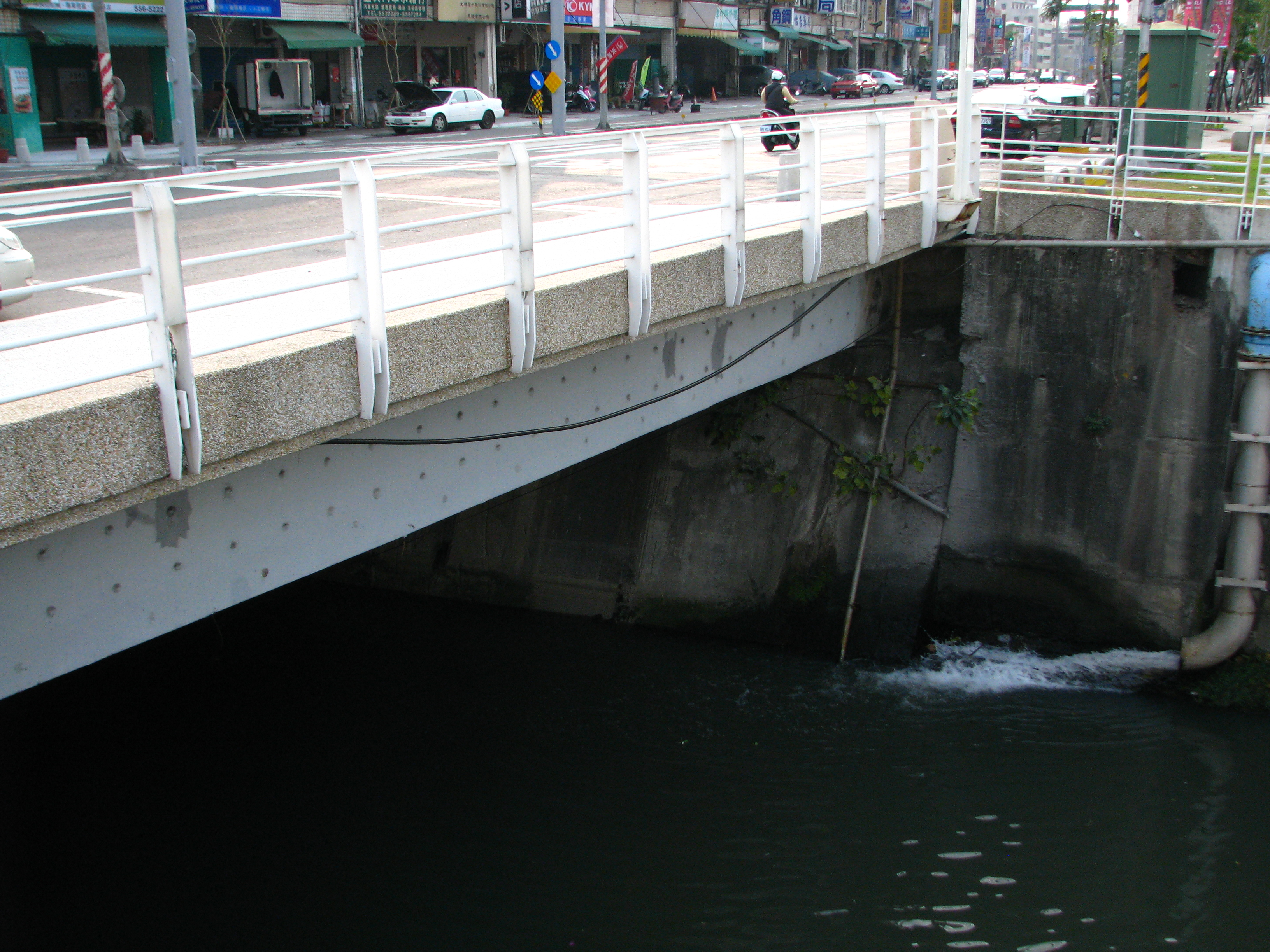 A old place name in Sanmin District, Kaohsiung, Taiwan.